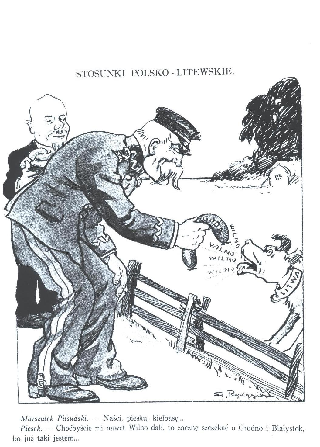 A satirical picture from the Polish satirical magazine Mucha (1934): a caricature of marshal Józef Piłsudski and Lithuania, criticizing Lithuanian unwillingness to compromise over Vilnius region. Marshal Piłsudski offers the meat labeled "agreement" to the dog (with the collar labelled Lithuania); the dog barking "Wilno, wilno, wilno" replies: "Even if you were to give me Wilno, I would bark for Grodno and Białystok, because this is who I am". Rationale: possibly out of copyright picture, not reproduced for profit since interwar period, used to illustrate Polish perception of Polish-Lithuanian conflict over Vilnius in press in that period